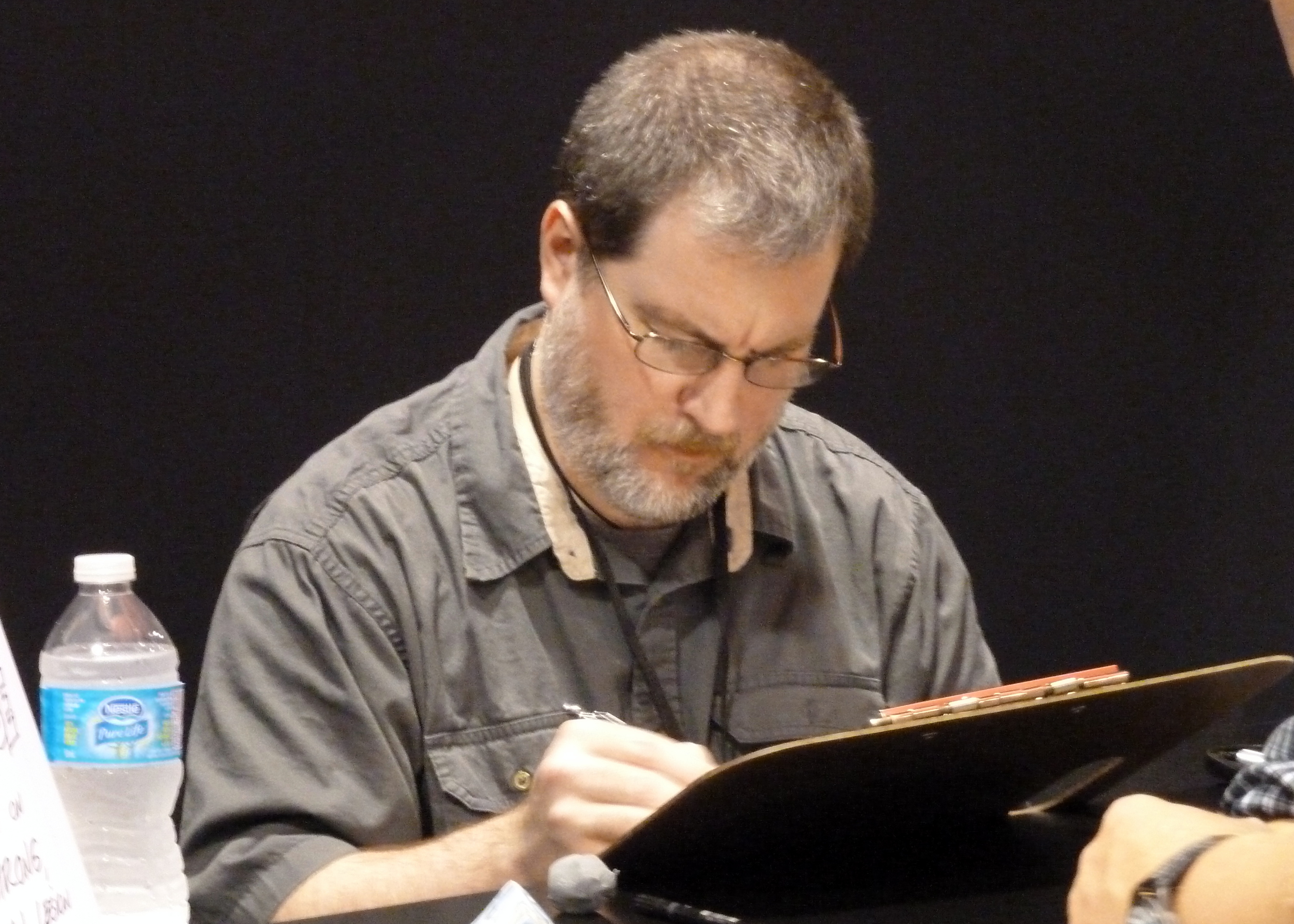 Chris Sprouse